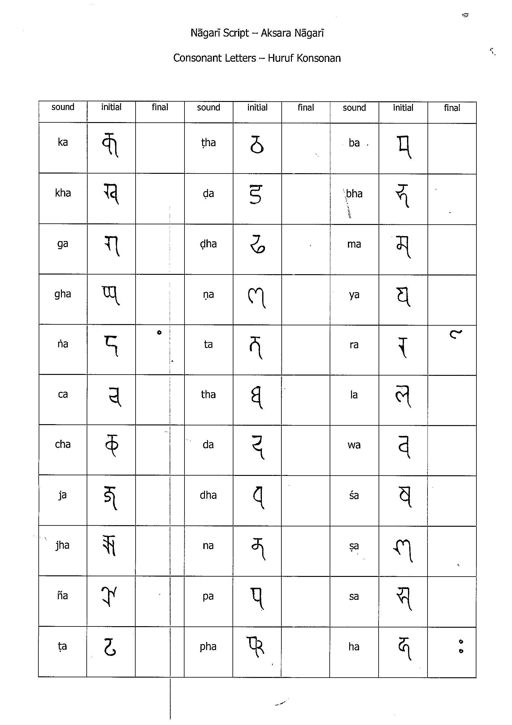 Table of consonant letters of Nagari Script.